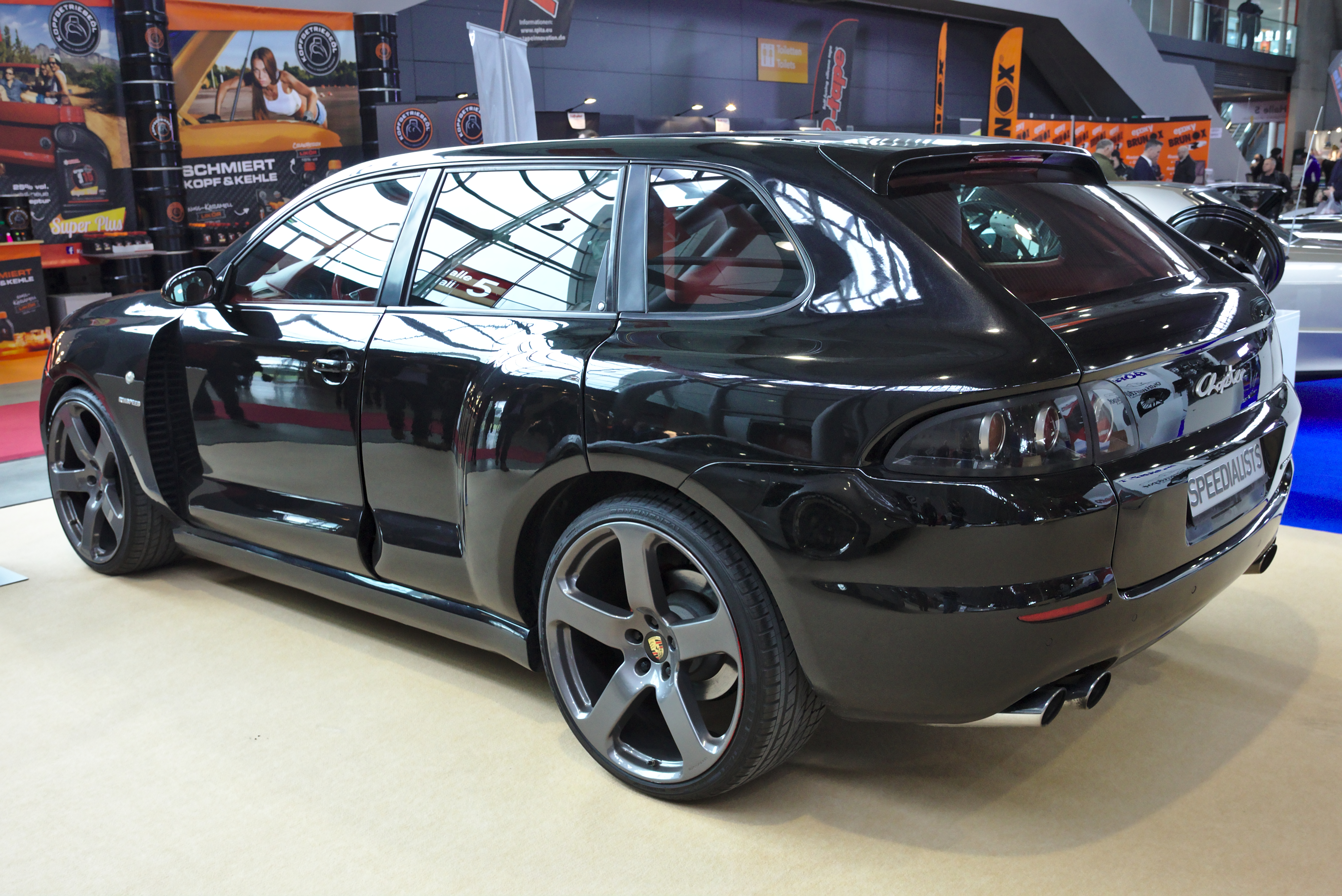 Rinspeed Chopster at Retro Classics 2018